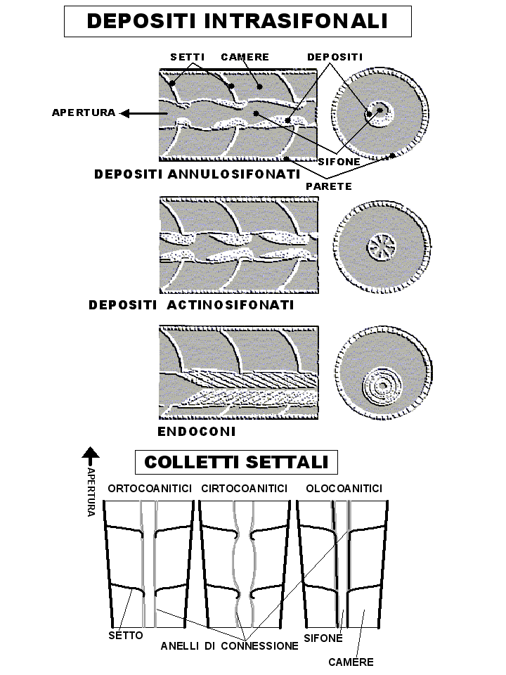 Terminology of sphuncular deposits & septal necks in nautiloids. Text in italian